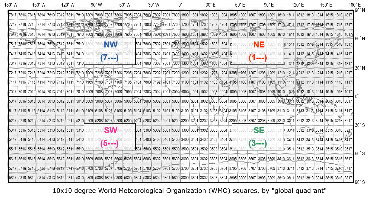 Global coverage of 10x10 degree World Meteorological Organization (WMO) squares, showing the notation principle of the four global quadrants